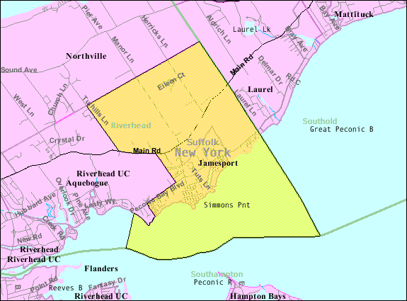 U.S. Census 2000 reference map for Jamesport